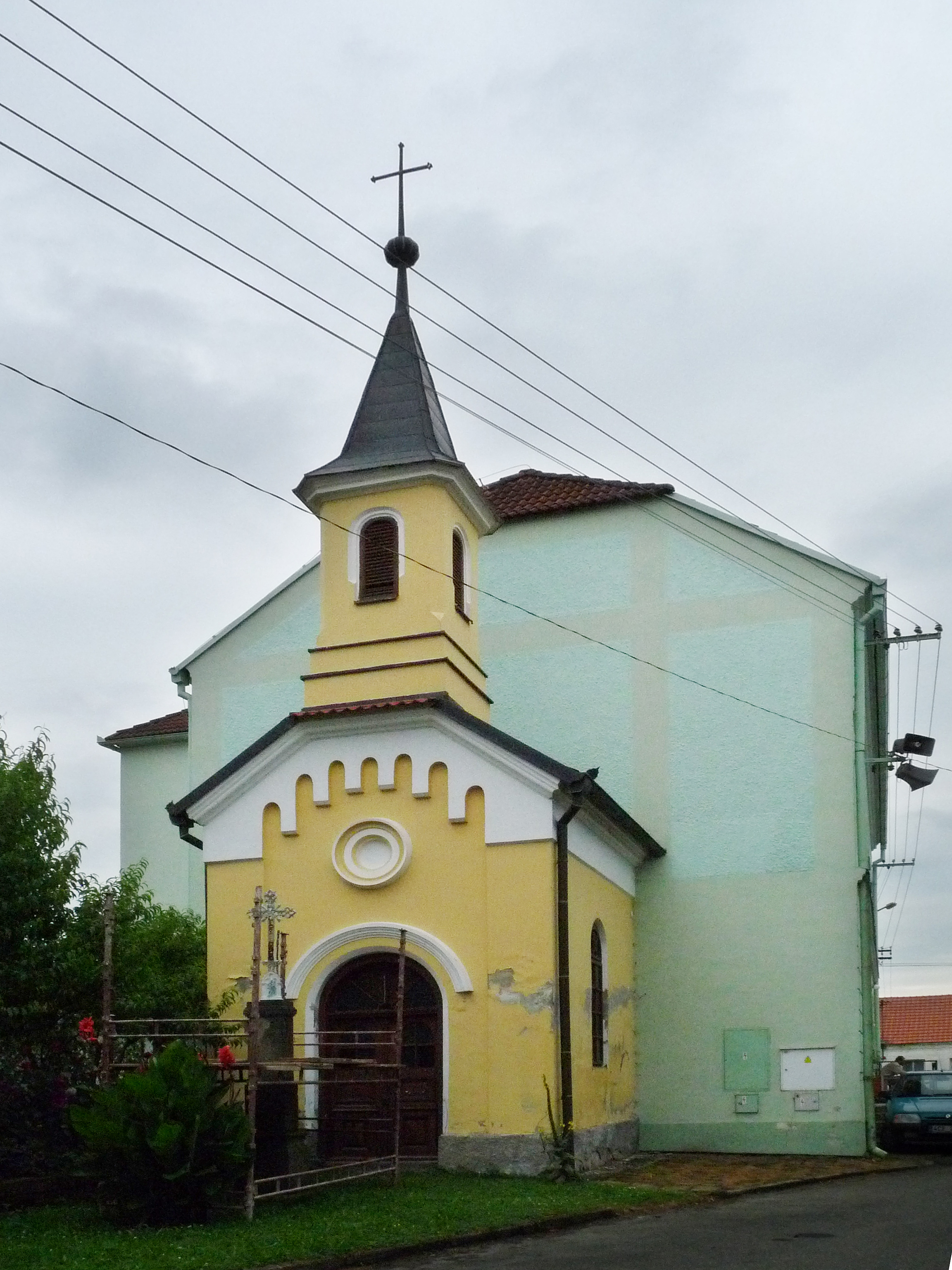 Chapel adjoining the former school in Hodětín, Tábor district, Czech Republic